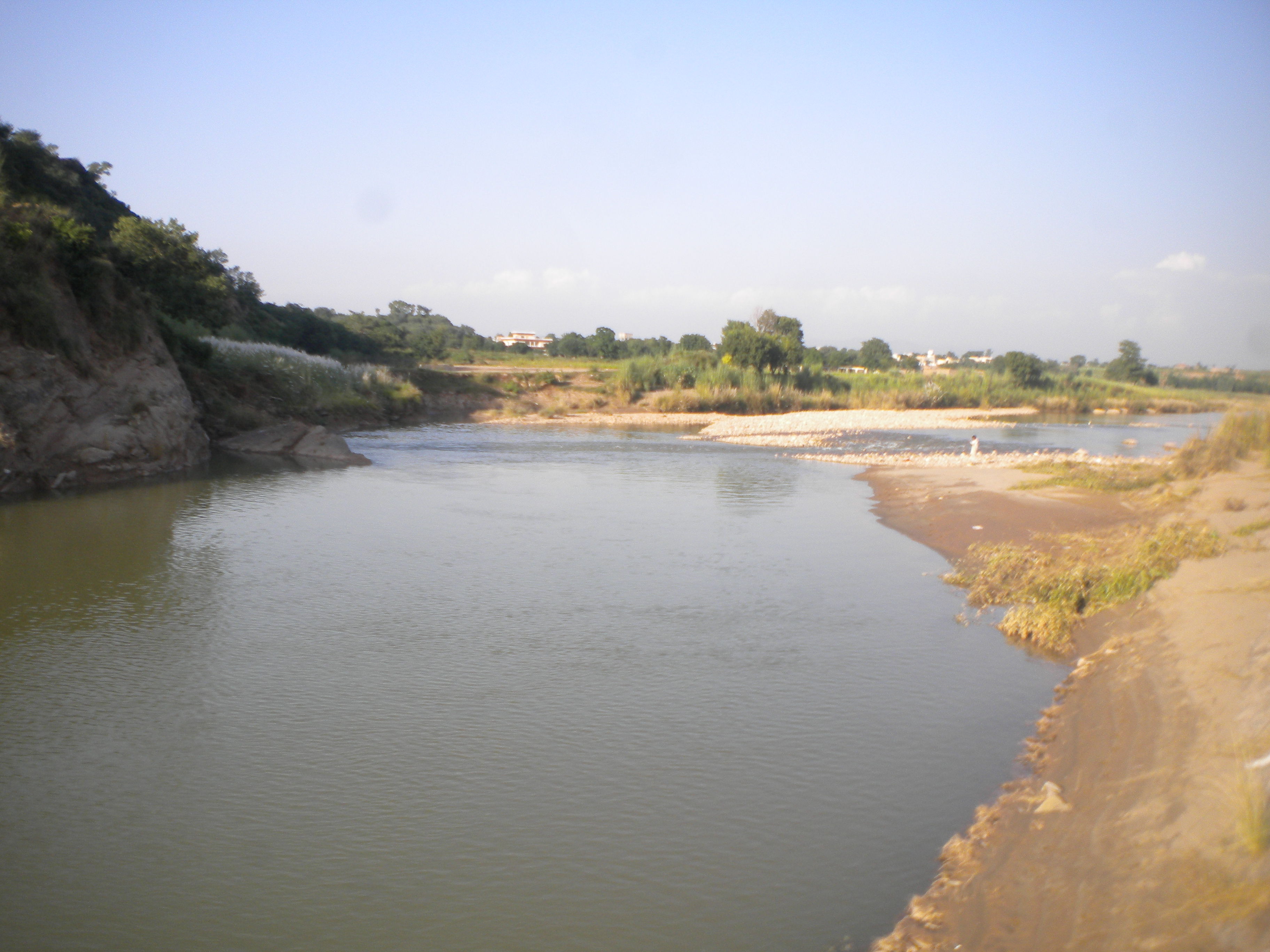 Ling beside DHA